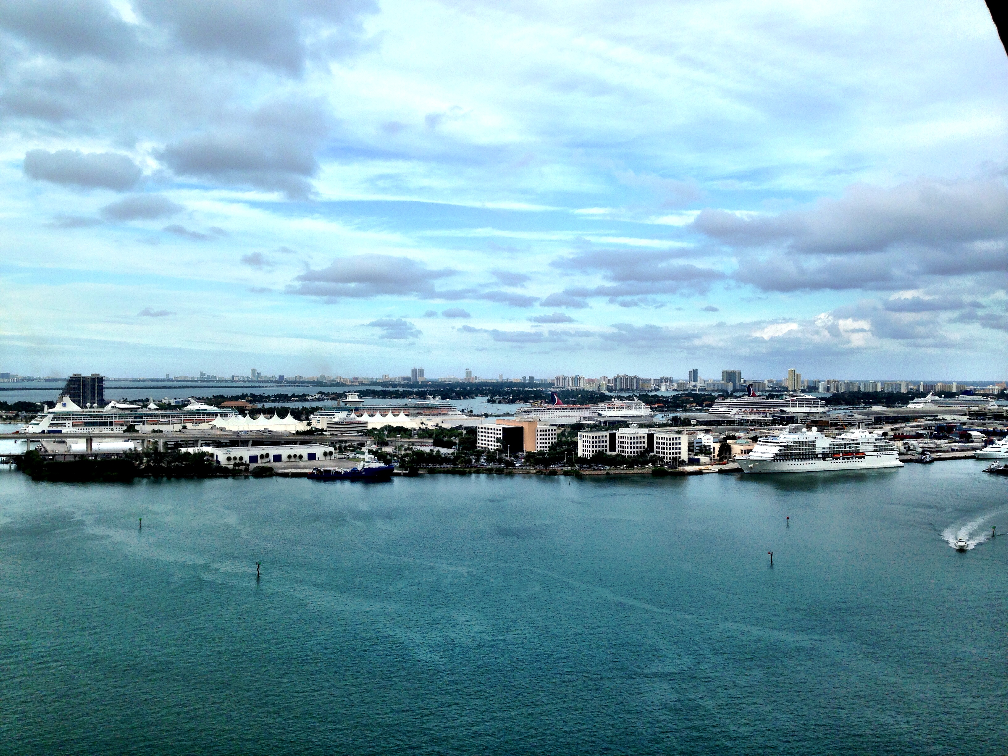 View of PortMiami